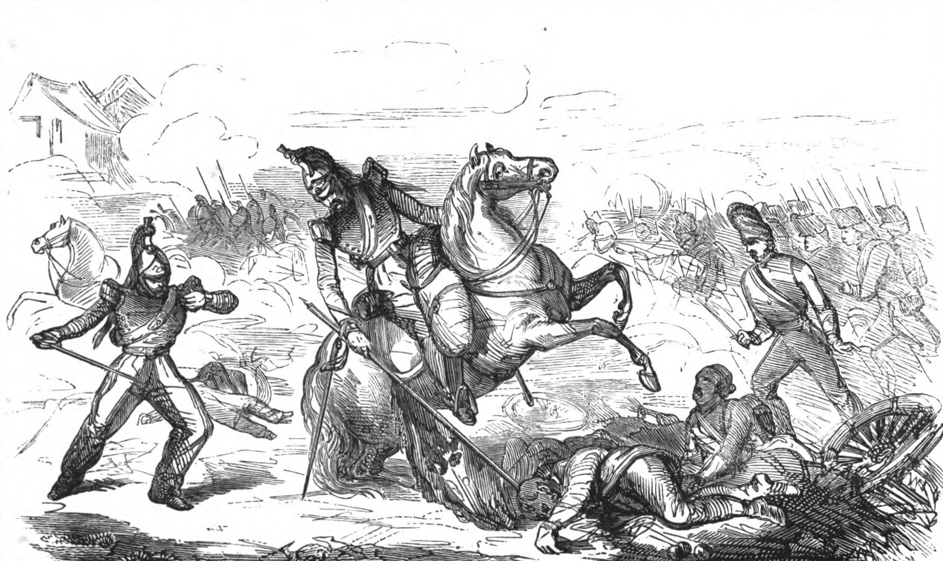 At the Battle of Jena, Marechal-de-Logis Humbert and Dragoon Fauveau, both of the 2nd Dragoon Regiment, take a Prussian officer prisoner. Both were awarded the Legion d'honneur after the battle.